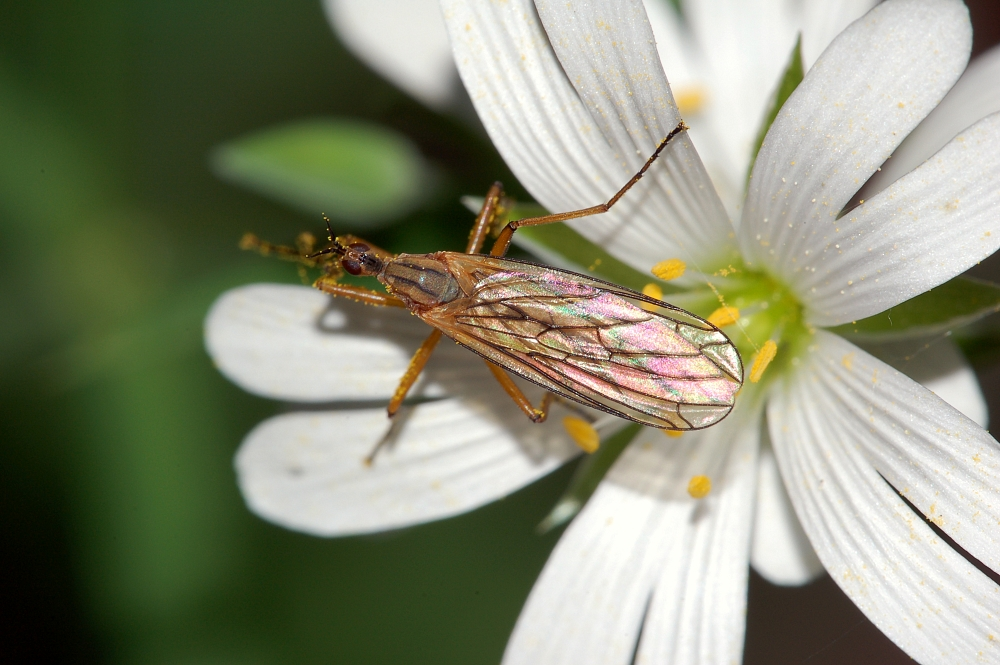 Xanthempis digramma, Mörfelden, Germany